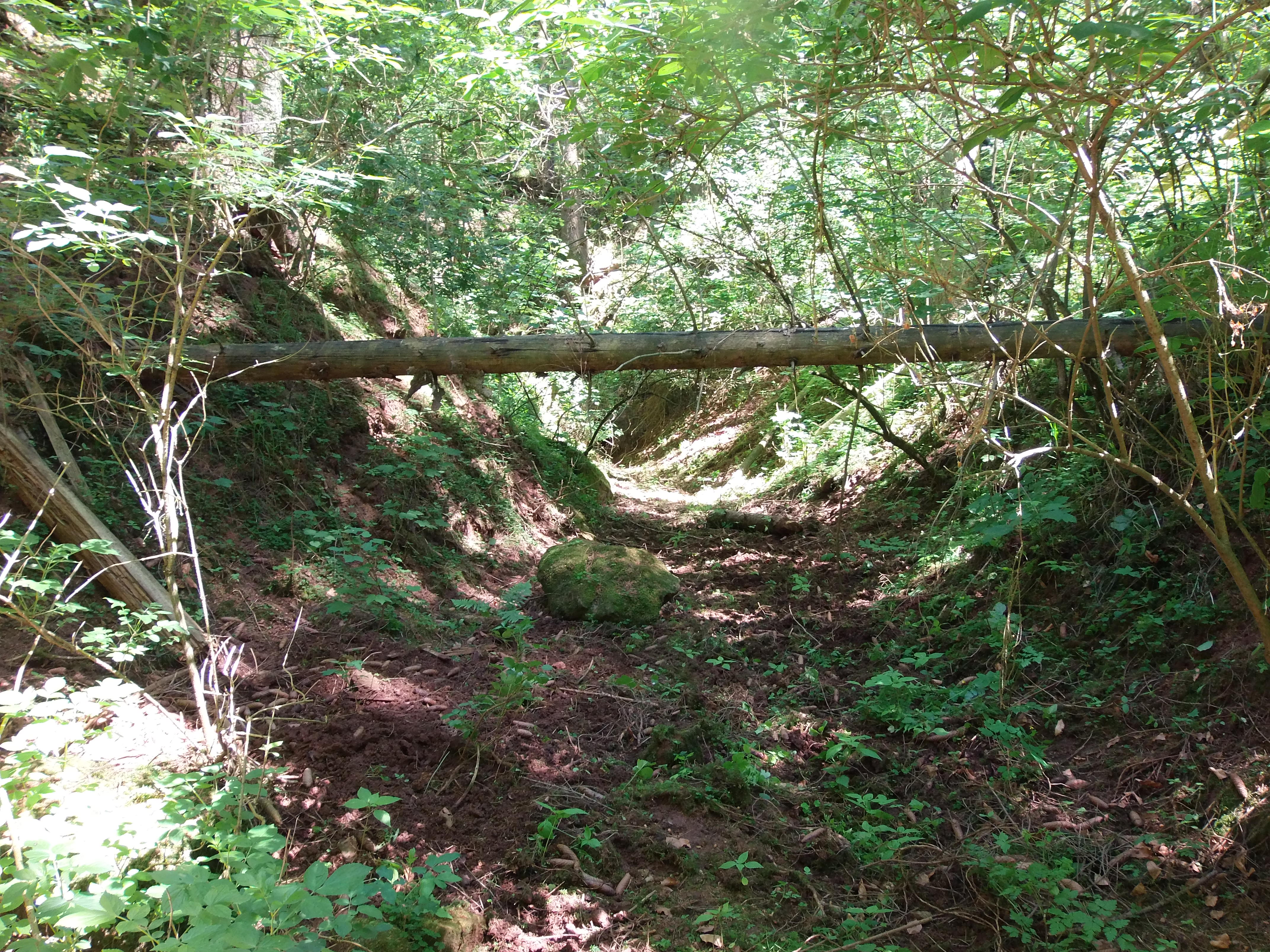 Natural monument Soběchlebské terasy - the bottom of the ravine